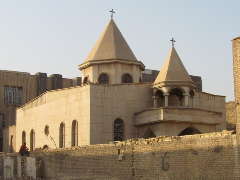 category:Armenian churches